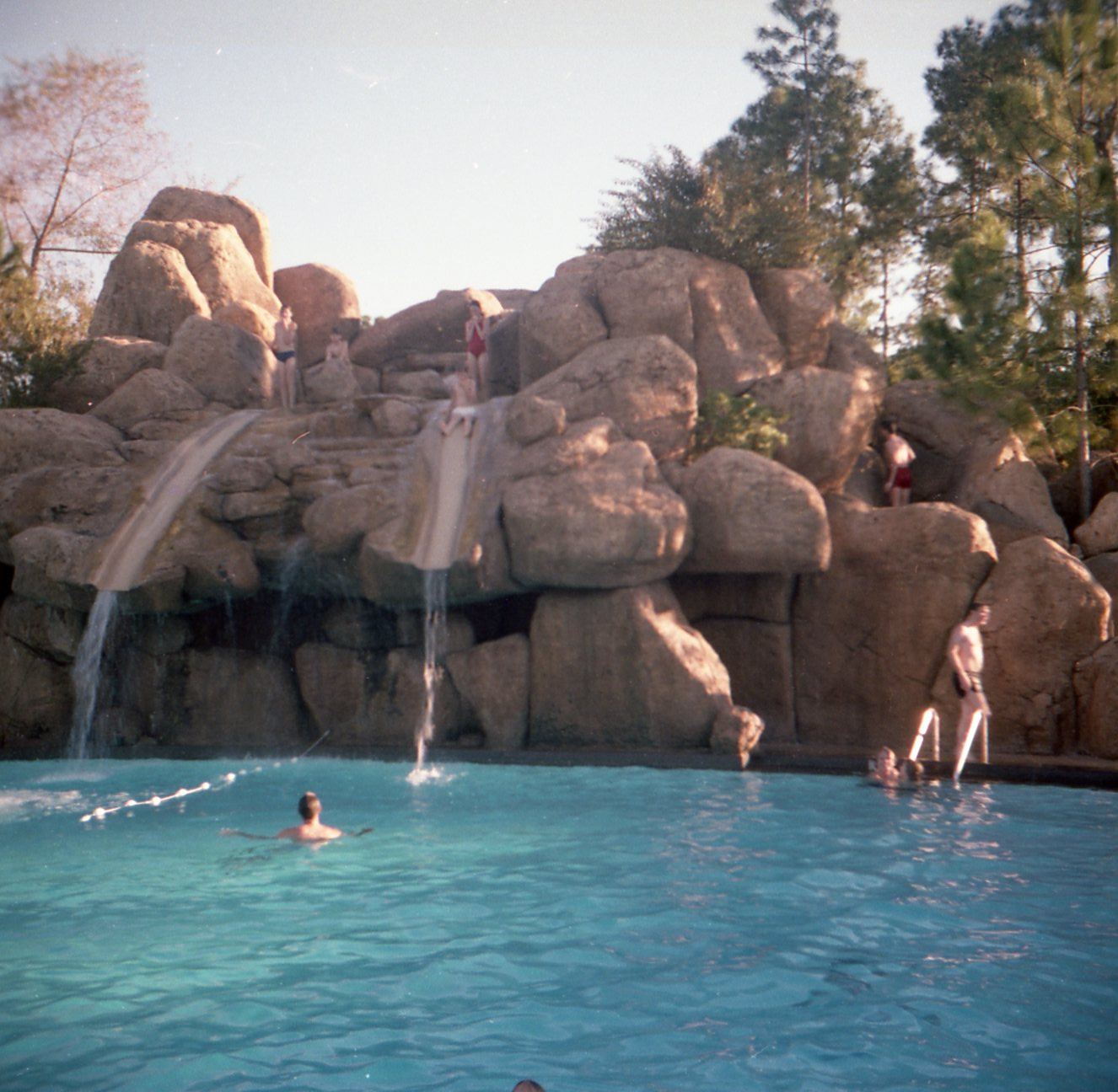 Steven - on slide on right - 11/23/81 - River Country, Fort Wilderness, Disney World, FL - 11/23/81